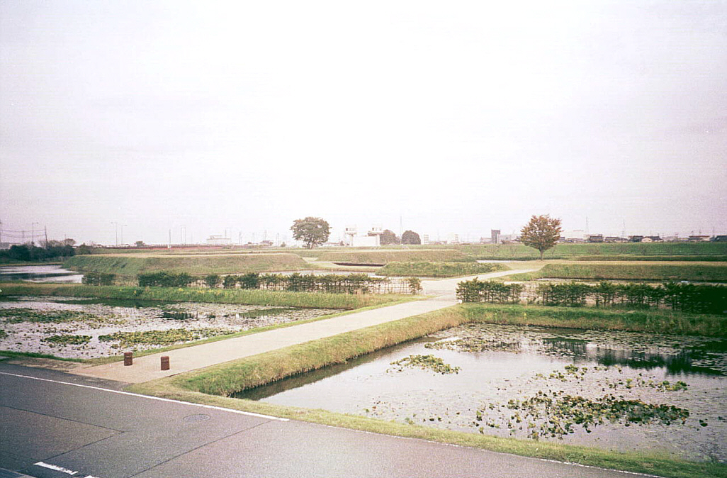 A view of the ruins of Yasuda Castle (Yasuda jō) constructed in the 16th century. Toyama city, Japan.